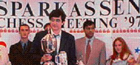 Chess Days 1997 at Dortmund: the first five of the GM tournament.